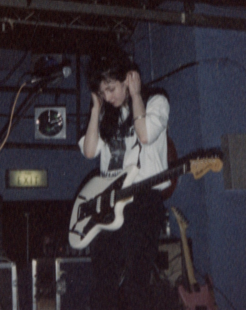 My Bloody Valentine, Riverside, Newcastle. Bilinda pushing her hair back over her ears